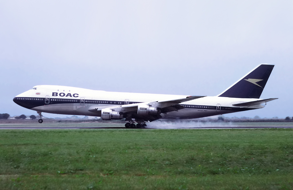 BOAC Boeing 747-136 landing at Heathrow